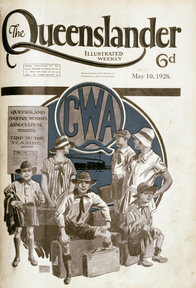 Photographer: Garnet Agnew Location: Queensland, Australia Description: Queensland Country Women's Association: Trip to the seaside. View this page at the State Library of Queensland Information about State Library of Queensland’s newspaper collection: Information about State Library of Queensland’s photograph collection